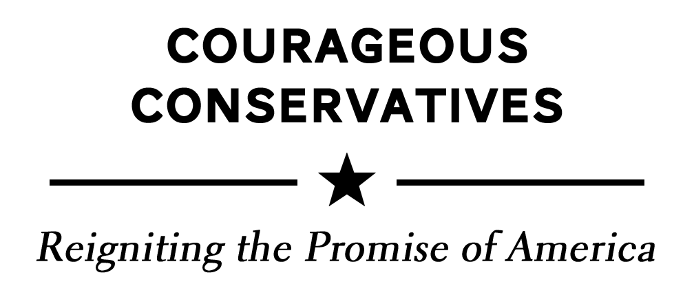 Slogan used by Ted Cruz's 2016 campaign, as seen on social media sites